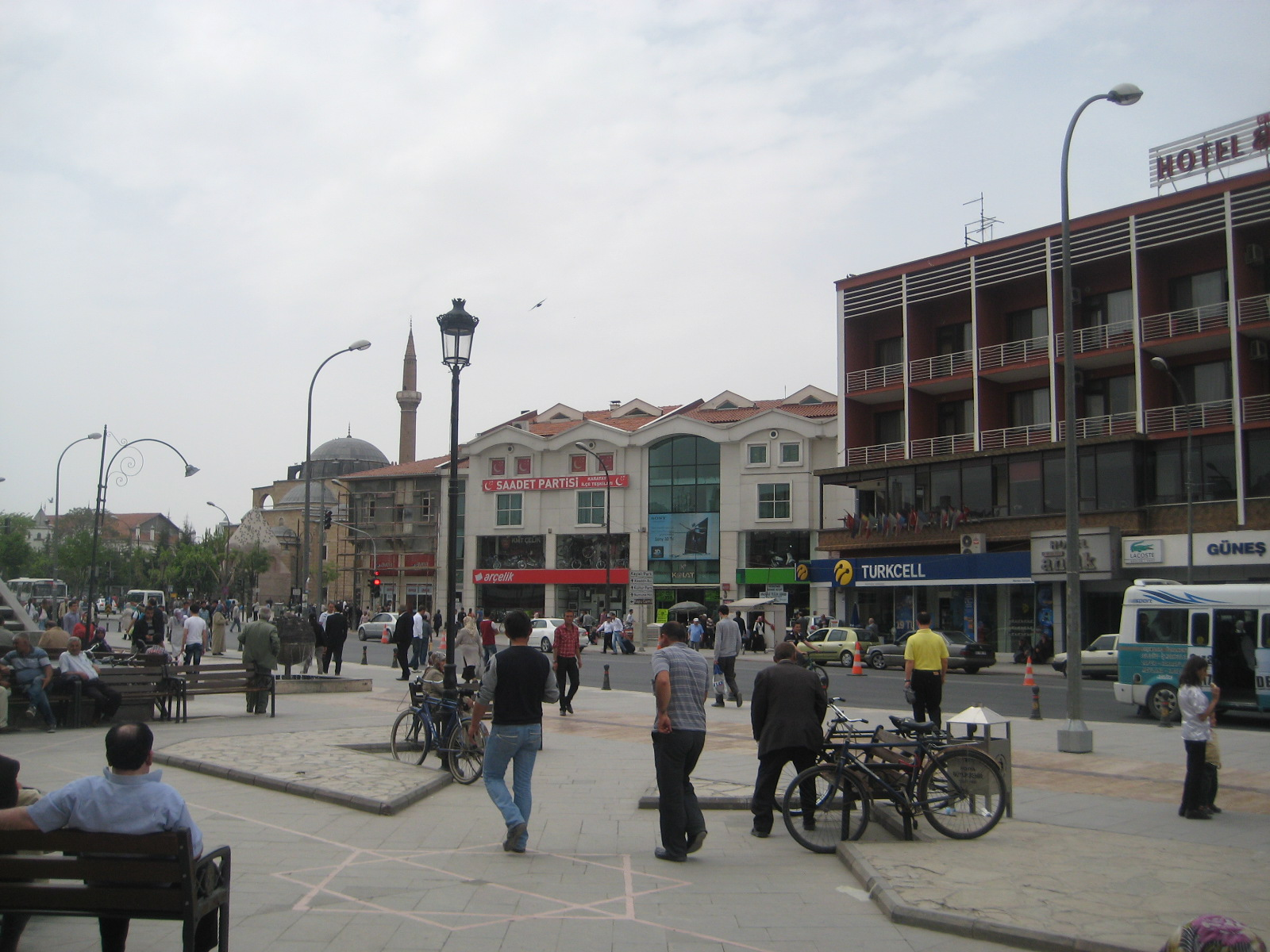 Picture from center of Konya, Turkey. Very noisy mosque visible in background.